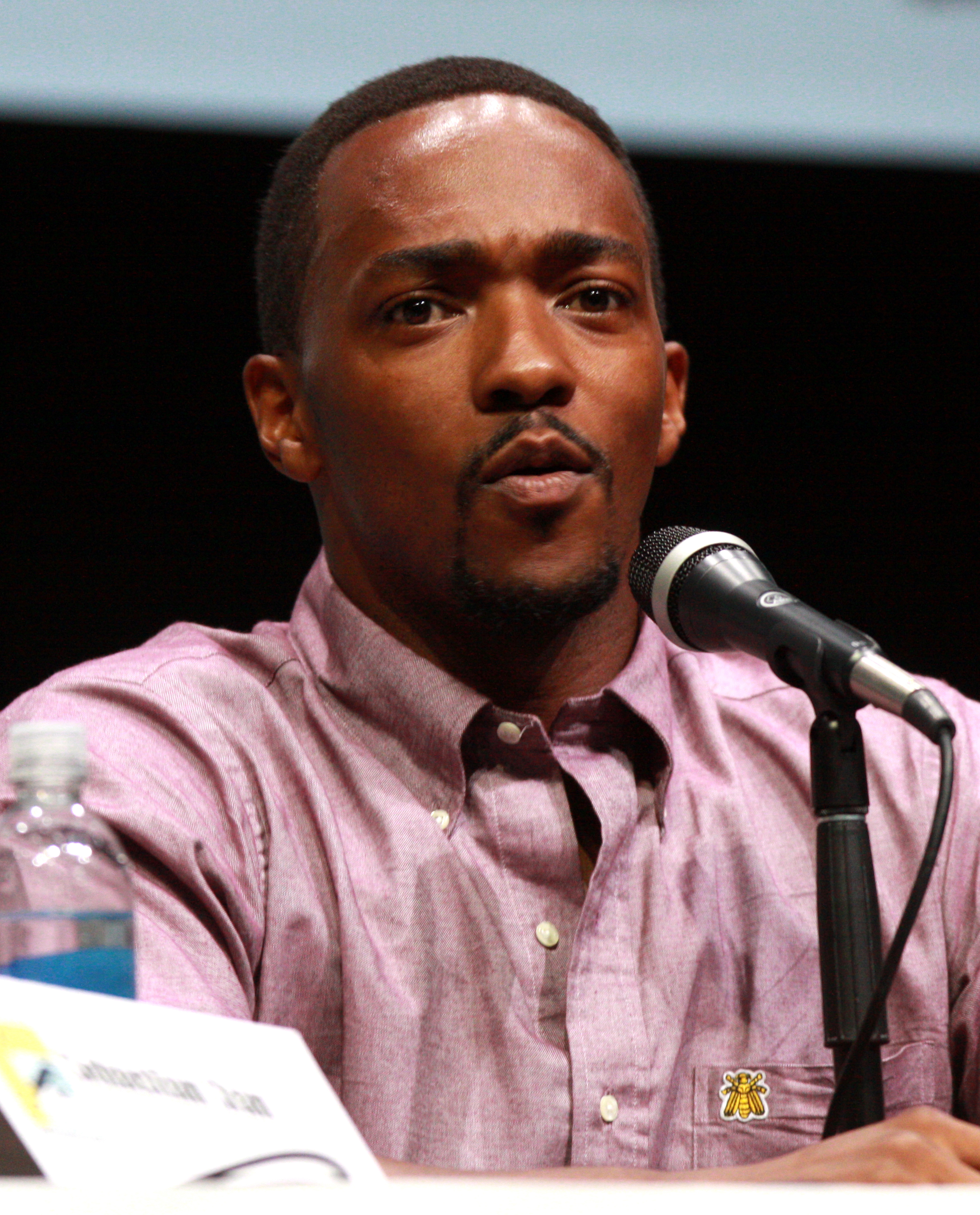 Anthony Mackie at the 2013 San Diego Comic Con International in San Diego, California.